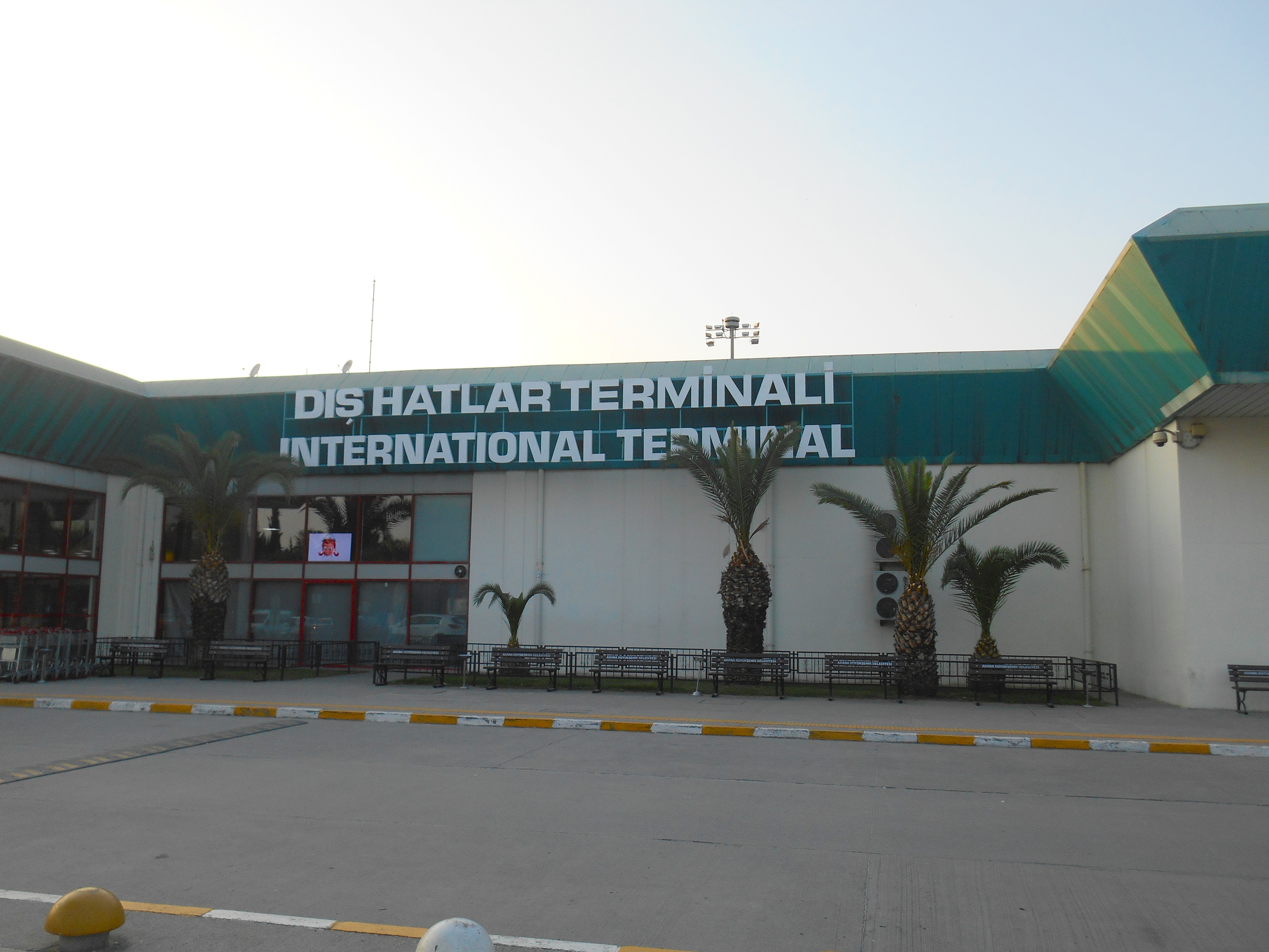 Adana Airport International Terminal